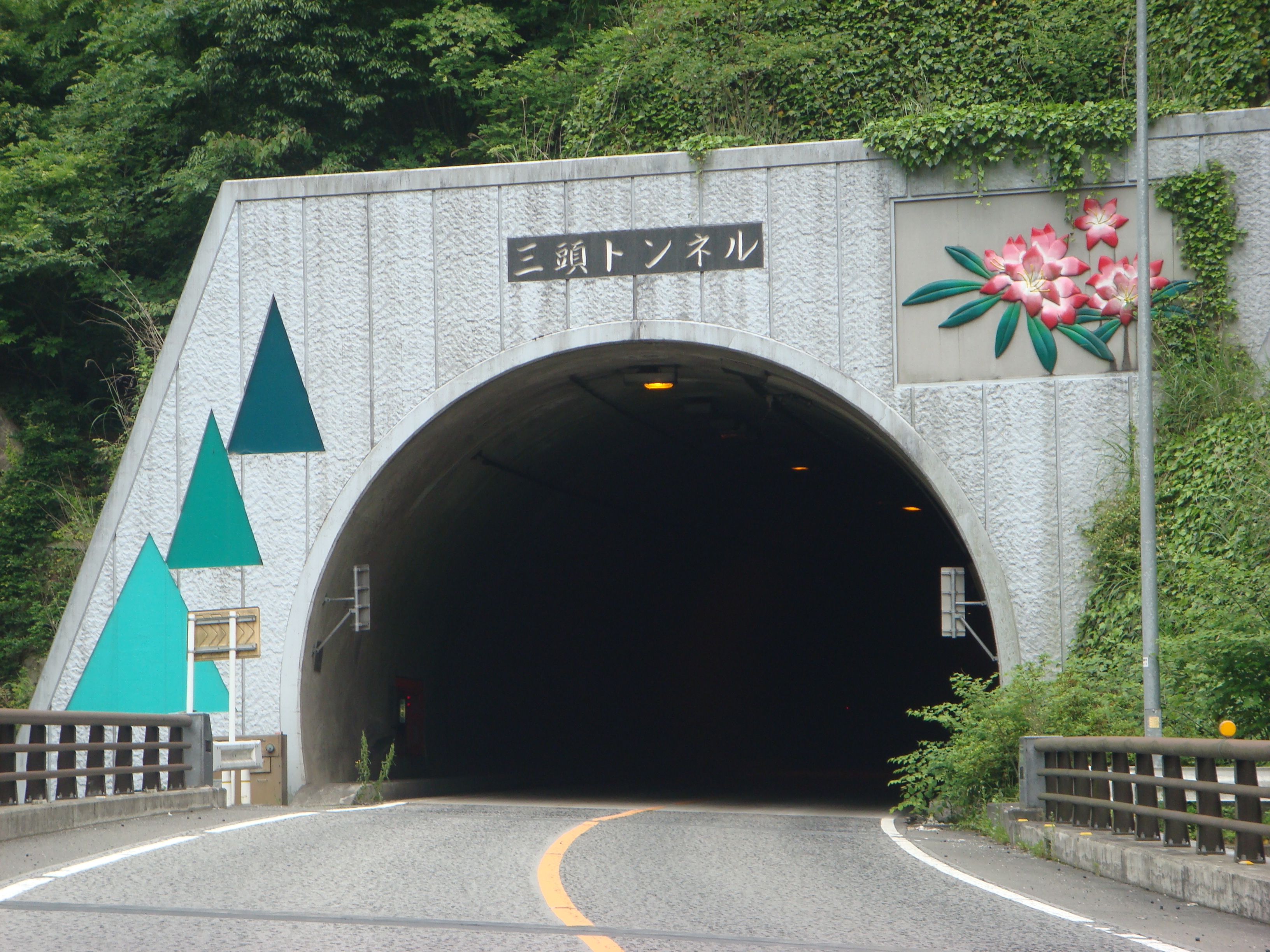 Santo-Tunnel(Japan)